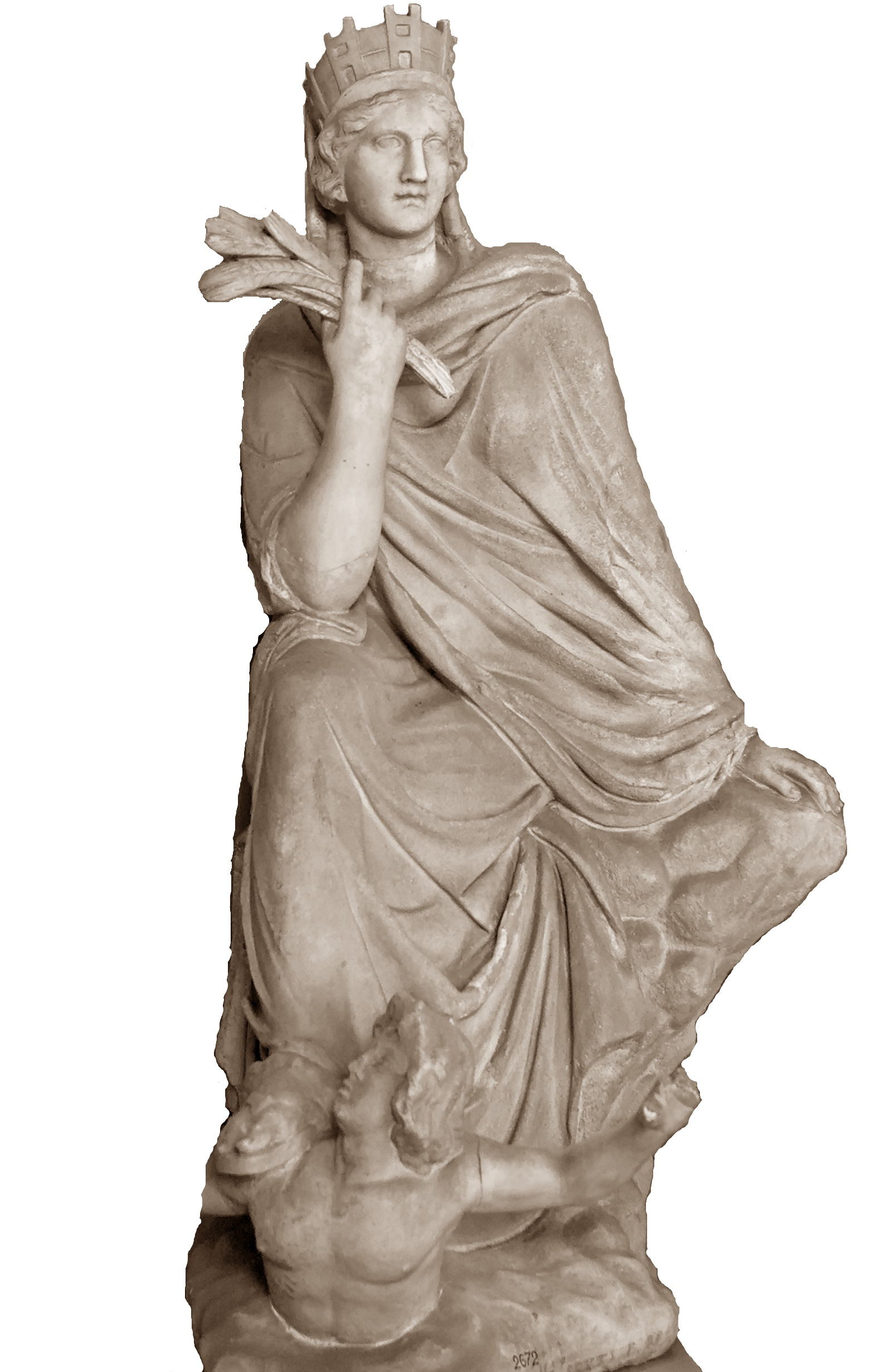 The Tyche (Fortune) of Antioch